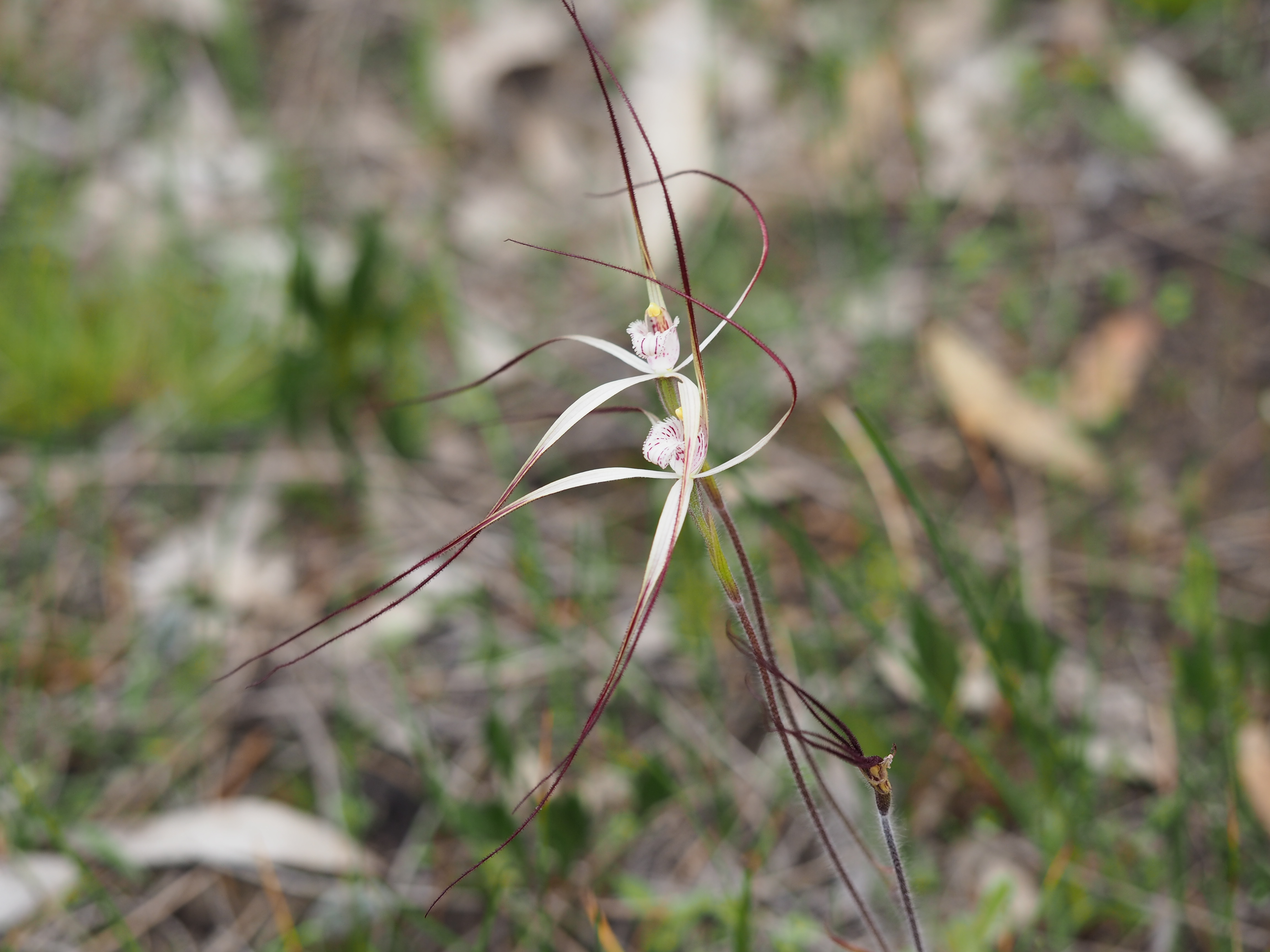 Caladenia pendens subsp. talbotii growing near Qualen Road in the Wandoo National Park in Western Australia